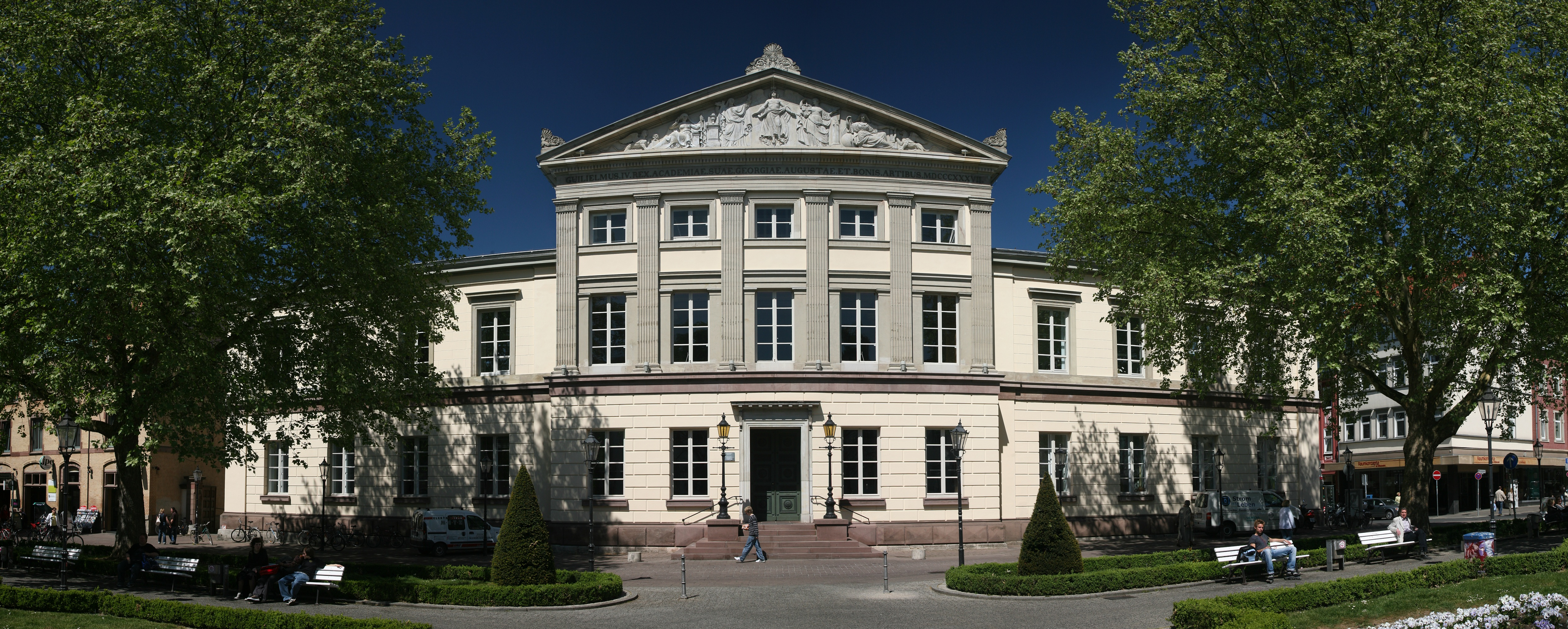 Great Hall (Aula) of Göttingen University, Wilhelmsplatz, Göttingen, Germany